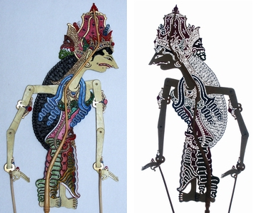 Kelansuara, wayang kulit figure from the epos Serat Menak Sasak